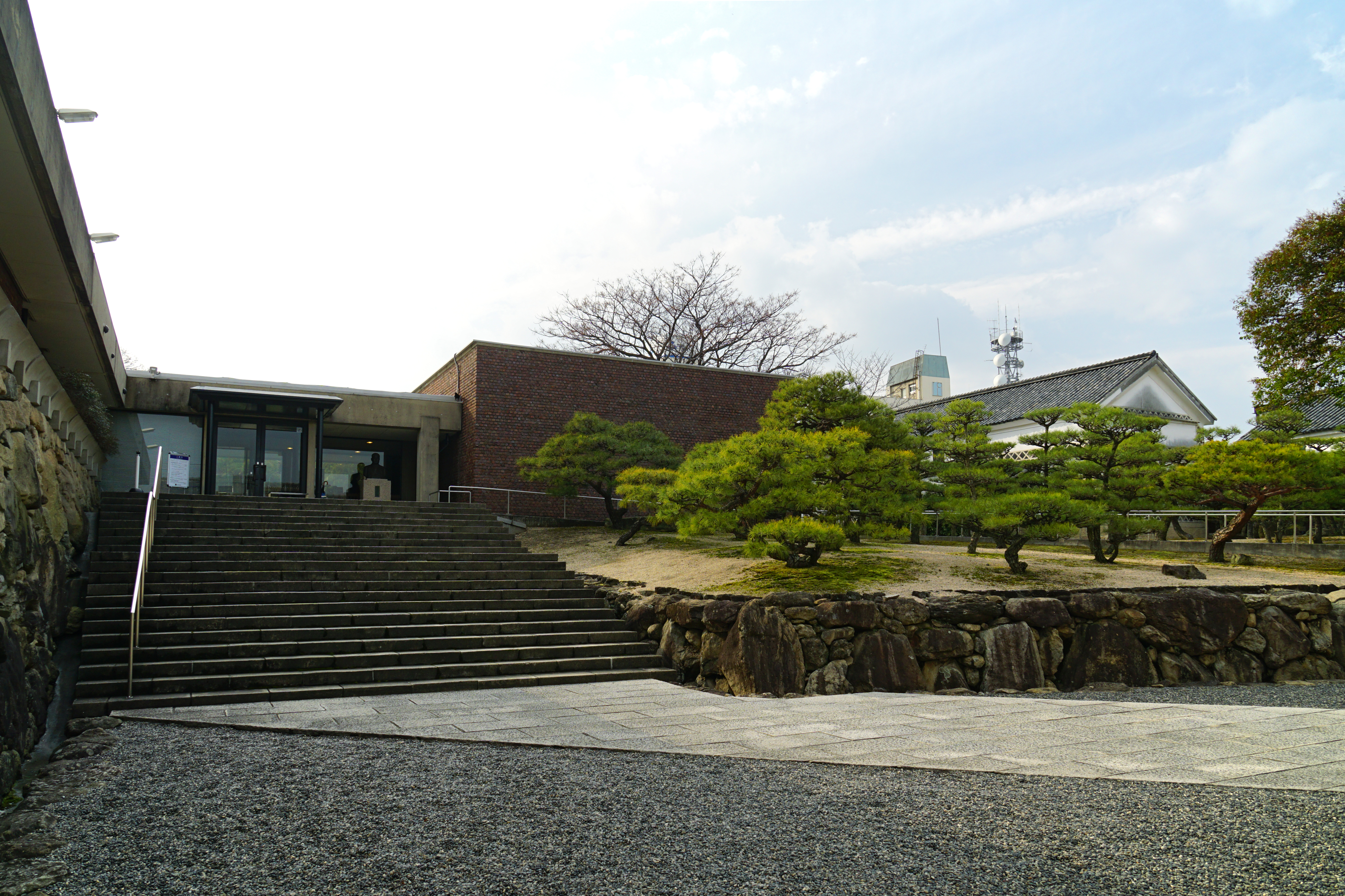 Hayashibara Museum of Art in Okayama, Okayama prefecture, Japan